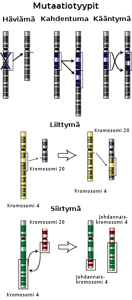 Finnish versio of Image:Types-of-mutation.png